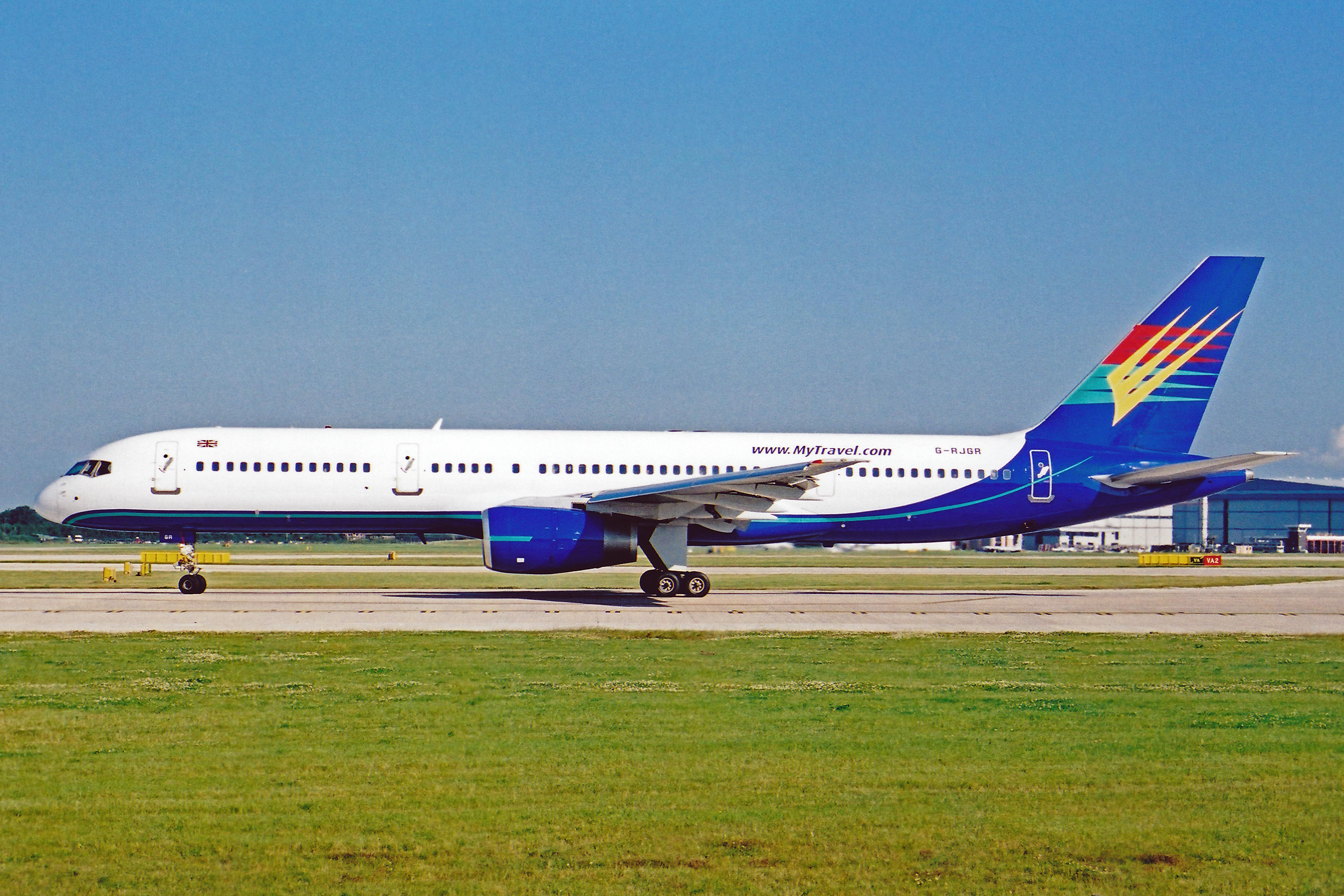 Basic Airtours International markings without titles but with the new web address.